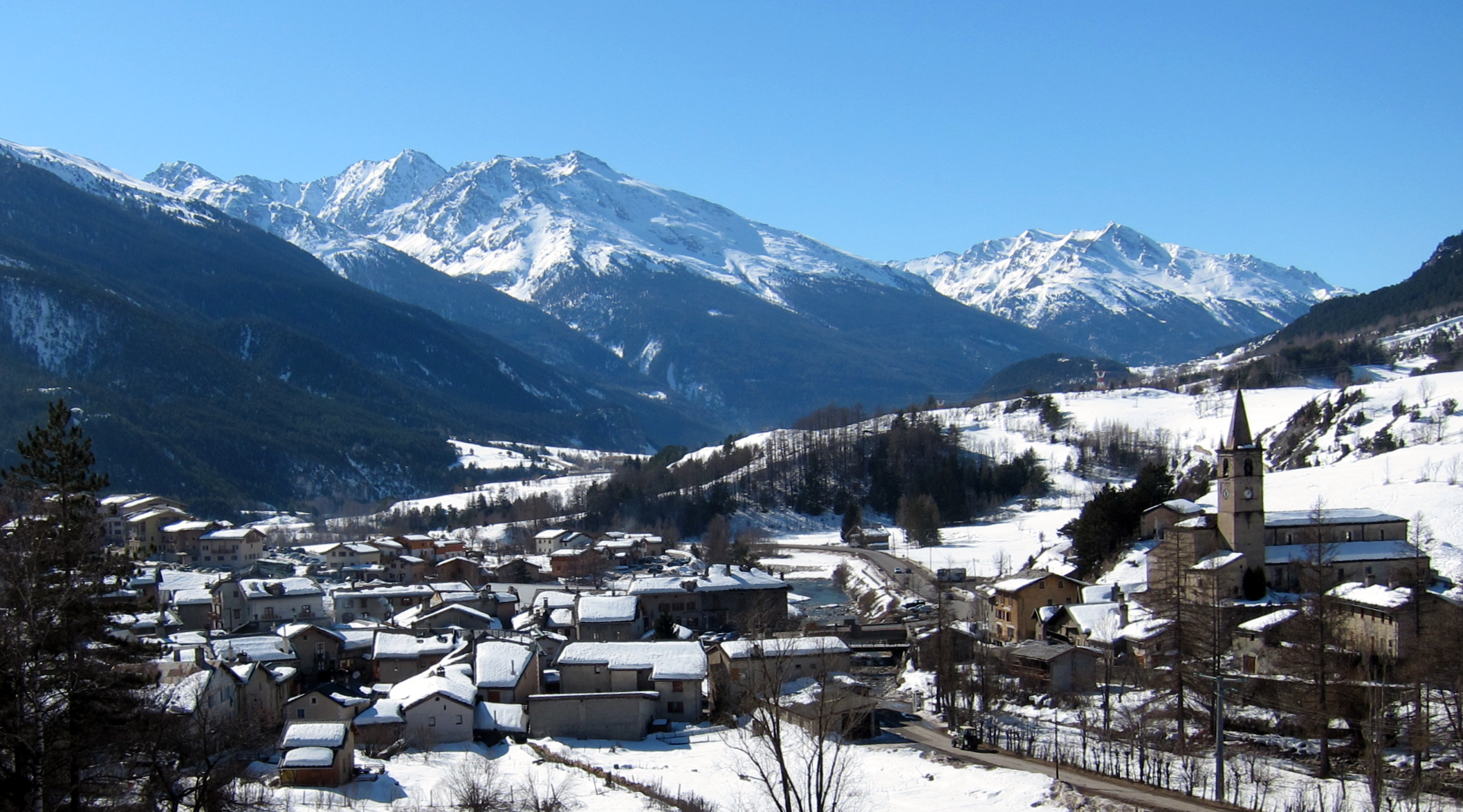 The Savoyan village of Termignon (under the snow) in the French Alps.